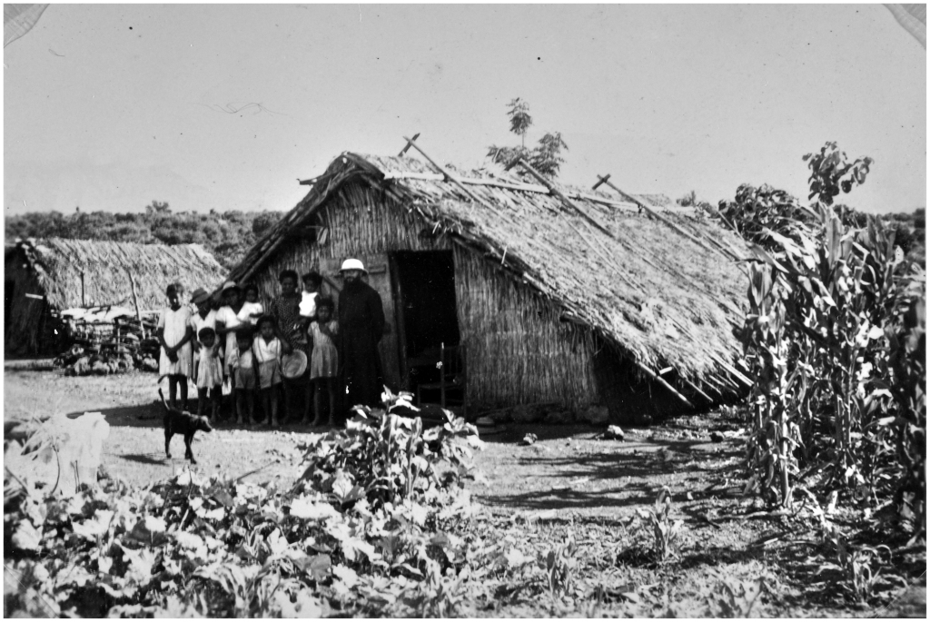 Father Favron and the makeshifts homes (Réunion, circa 1939)